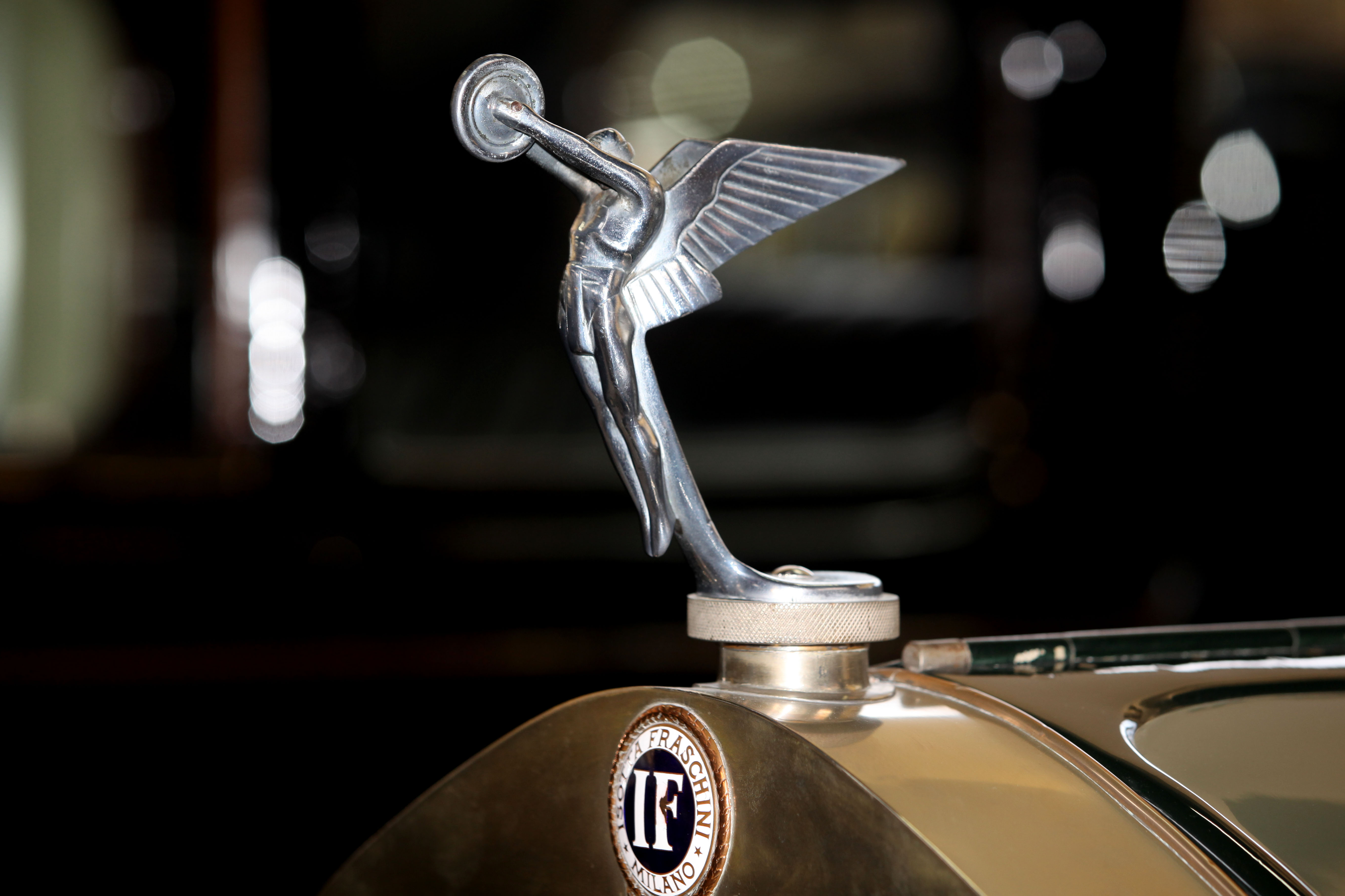 Location: Photo: Konrad Lagger, Salzburg